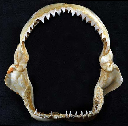 Carcharhinus longimanus